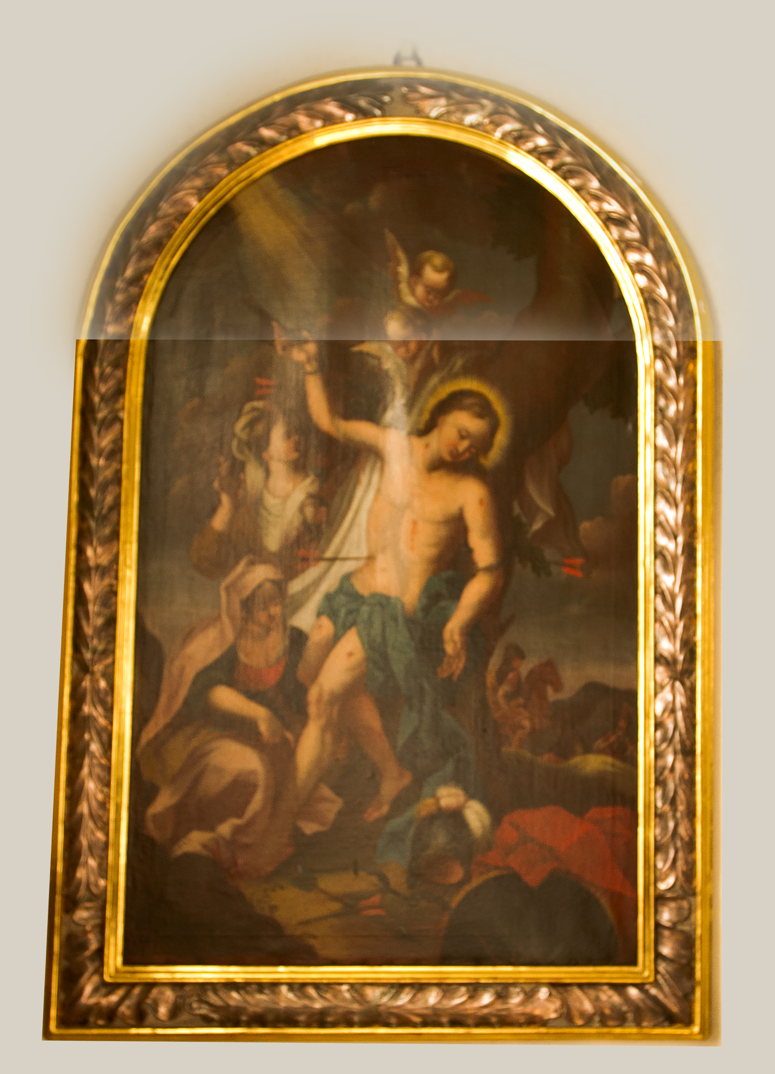 Johann Georg Wolcker the Elder, oil painting of Saint Sebastian at the west wall of the parish church in Schelklingen, signed "Joh. Georg Wolcker 1723"